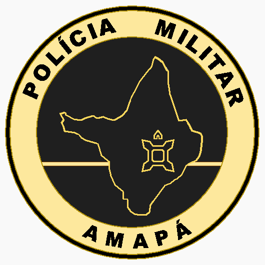 Coat of arms of Military Police - PMAP - Brazil.